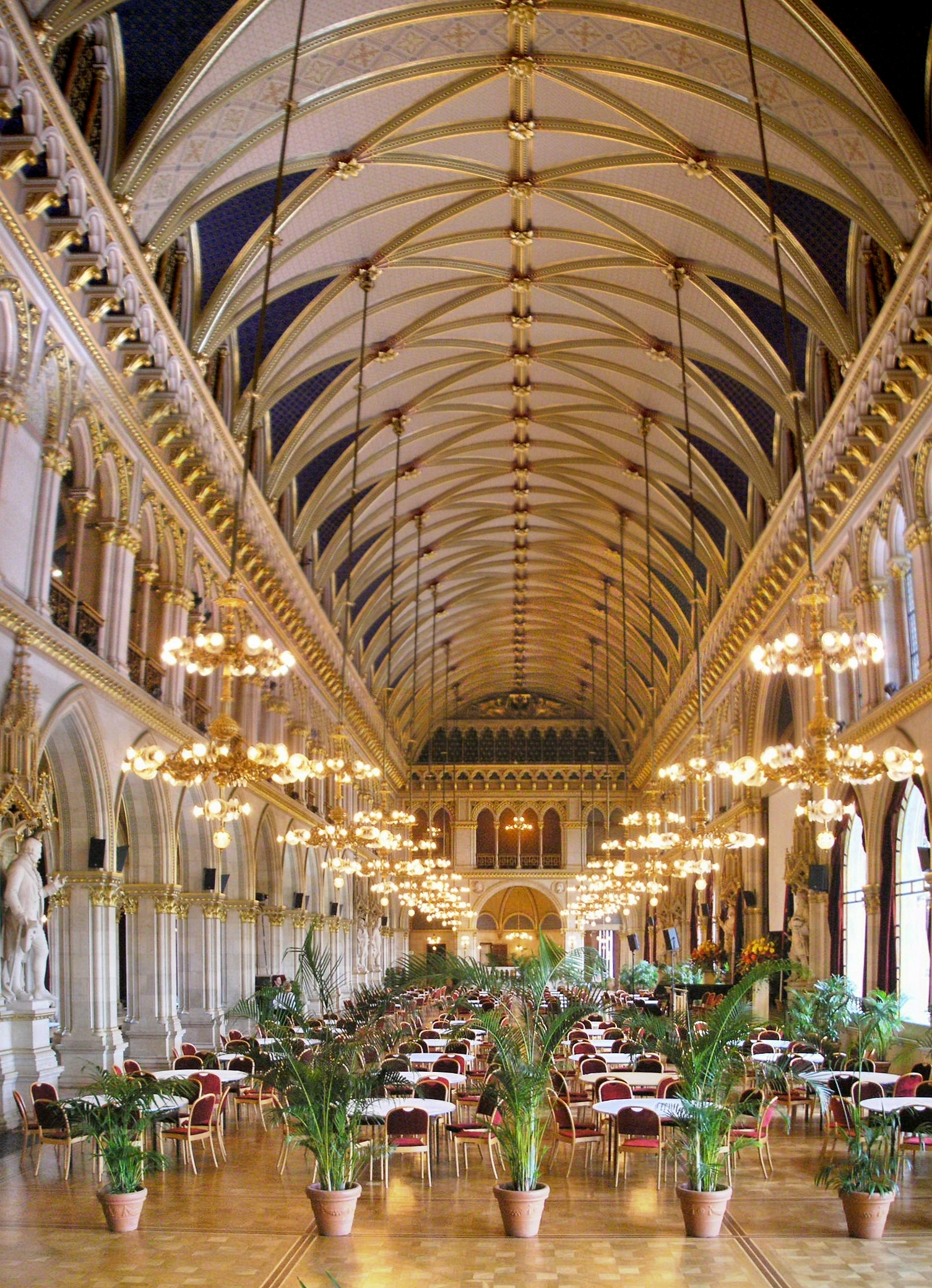 Neo-gothic Festsaal in the Rathaus (city hall) of Vienna.